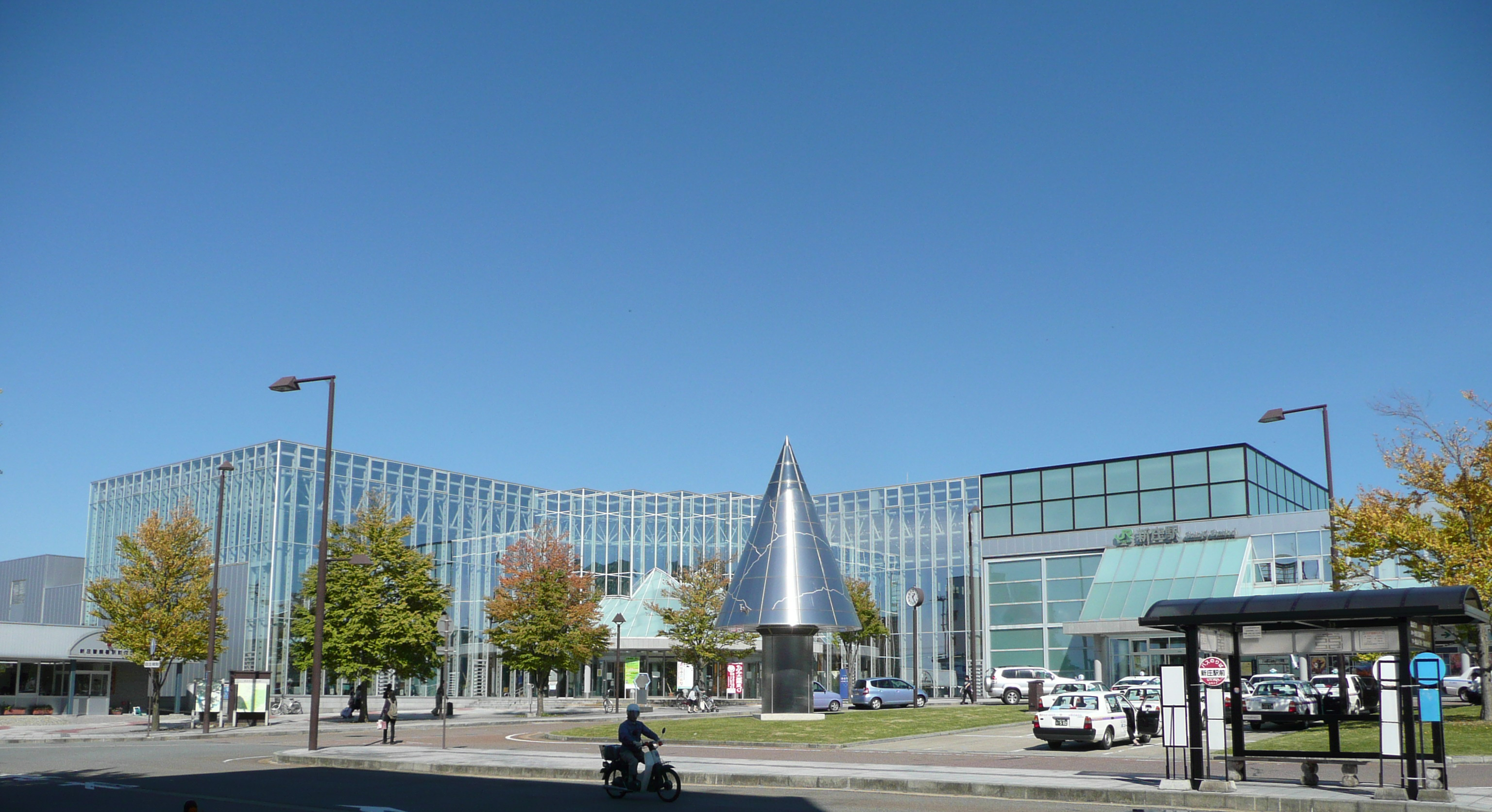 新庄駅西口